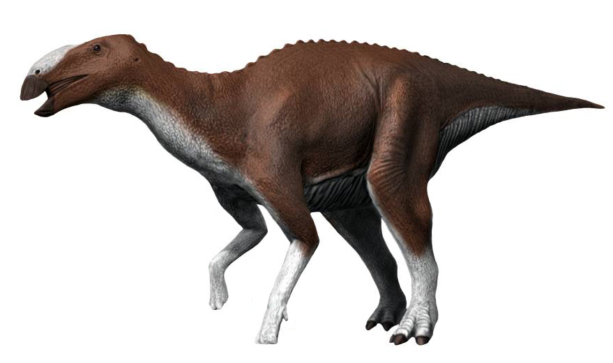 Life reconstruction of Eotrachodon orientalis